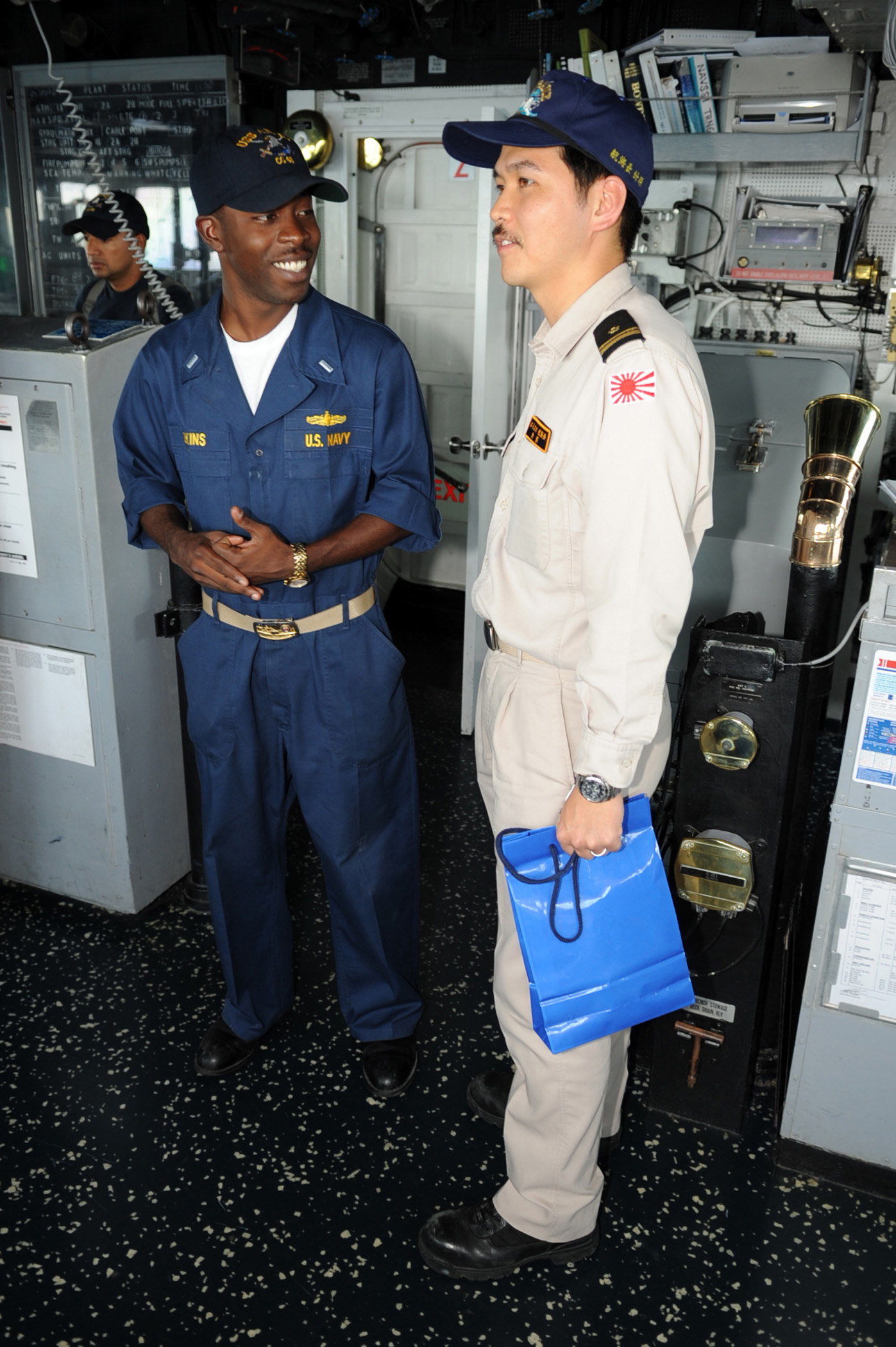 U.S. Navy Lt. j.g. Ron Jenkins, a navigation officer assigned to guided-missile cruiser USS Anzio (CG 68), speaks with Japanese Maritime Self-Defense Force Lt. j.g. Hiroyuki Harihara, a navigation officer assigned to JS Harusame (DD-102), aboard Anzio, under way in the Gulf of Aden, Sept. 5, 2009. Anzio is the flagship of Combined Task Force 151, a multinational task force established to conduct counterpiracy operations off the coast of Somalia.